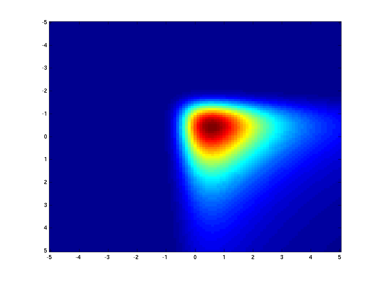 Multivariate stable with independent components